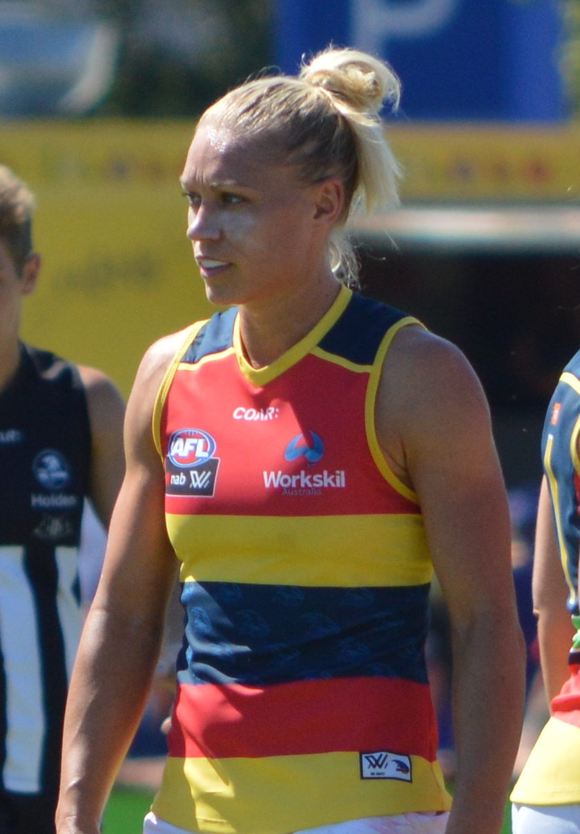 Erin Phillips during the round 7, 2017 AFL Women's match between Collingwood and Adelaide.